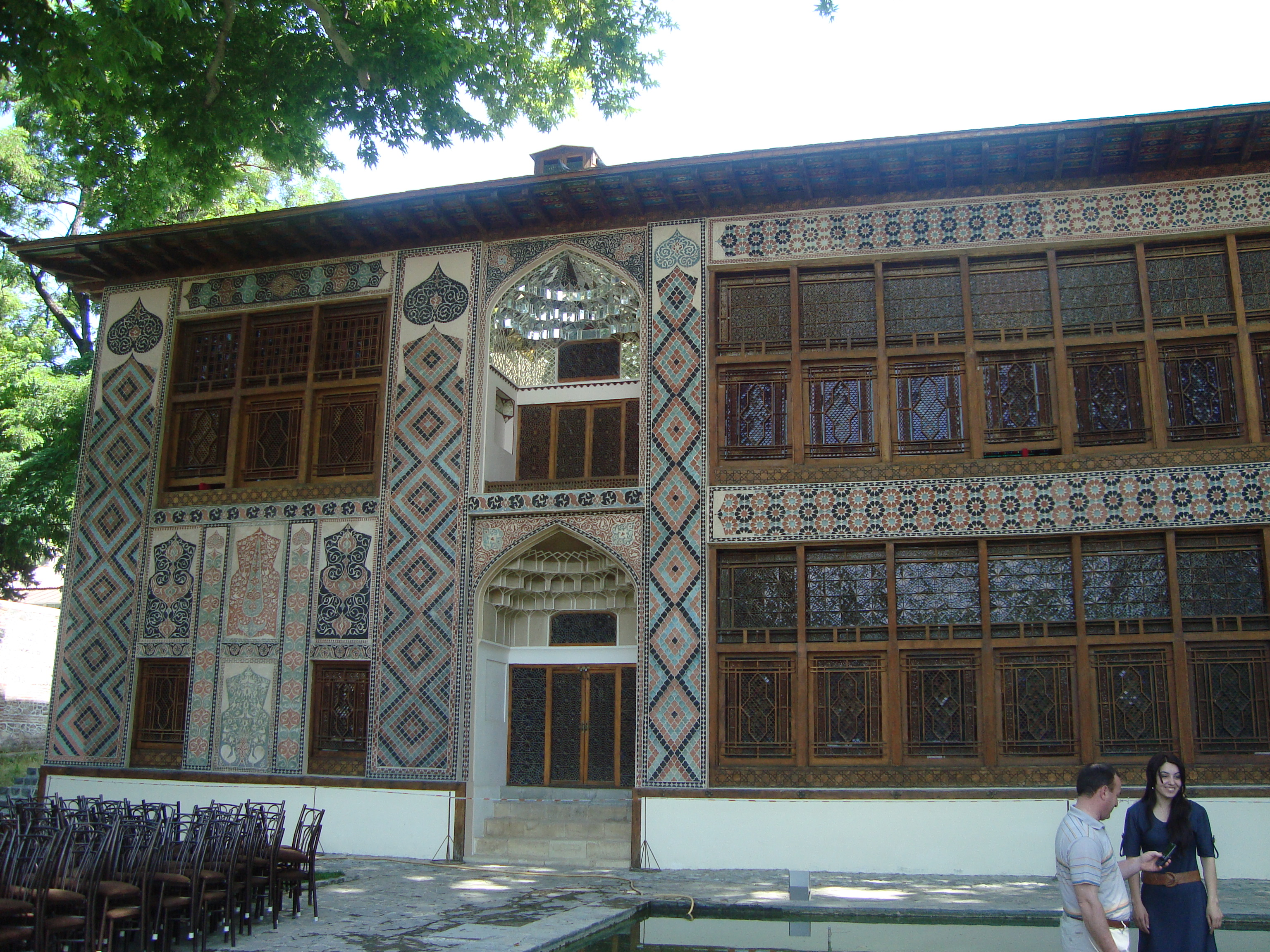 Shaki_khan_palace_image_Shaki_city_azerbaijan